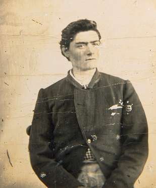 Ned Kelly, aged fifteen, photographed in 1871 at Kyneton, Victoria.